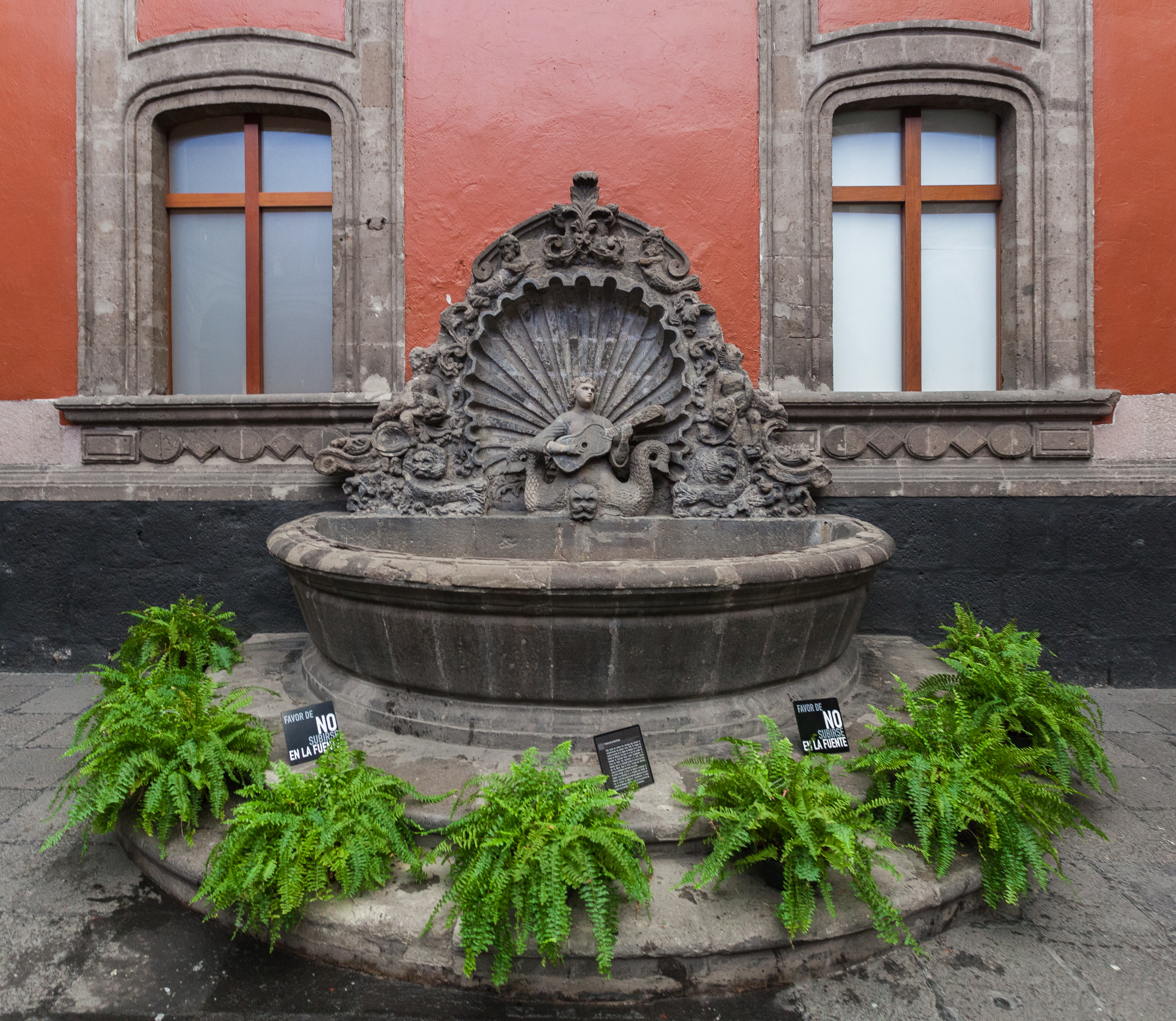 Museum of the City of Mexico, México D.F., México